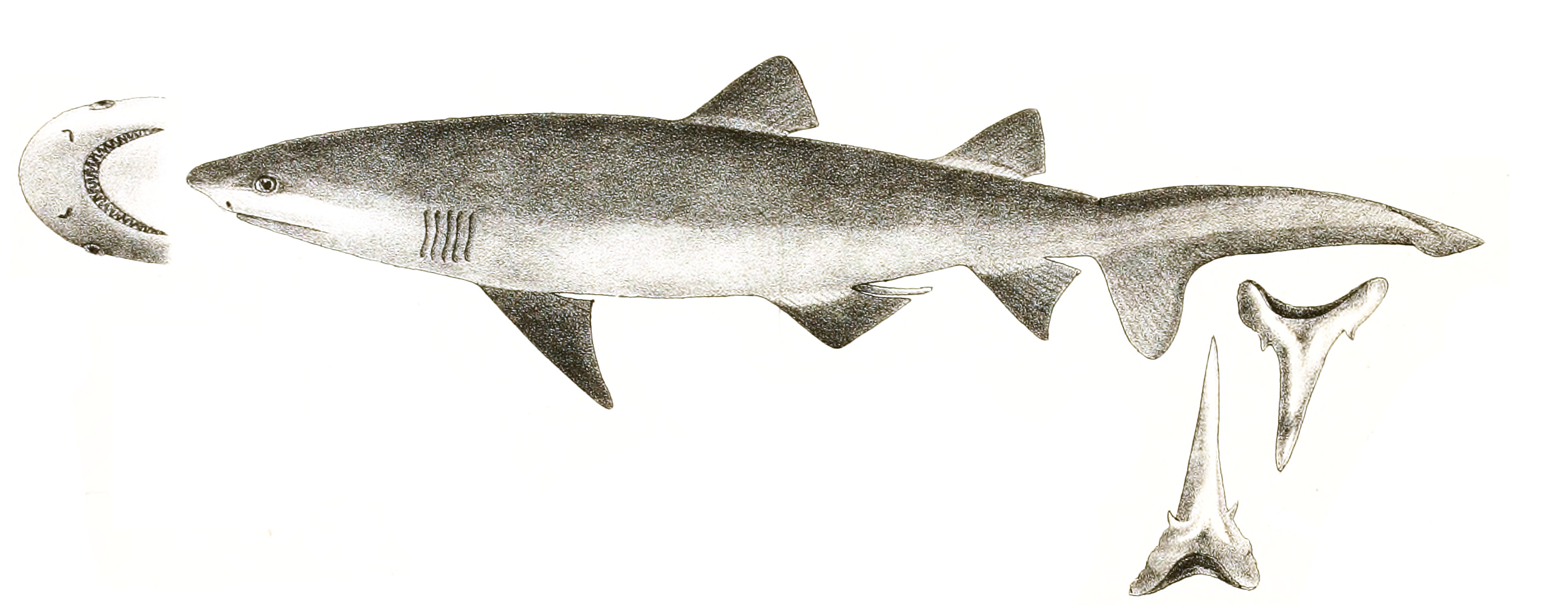 The species names / identity need verification - original names from plate are included here. The original plates showed the fishes facing right and have been flipped here. Carcharias tricuspidatus